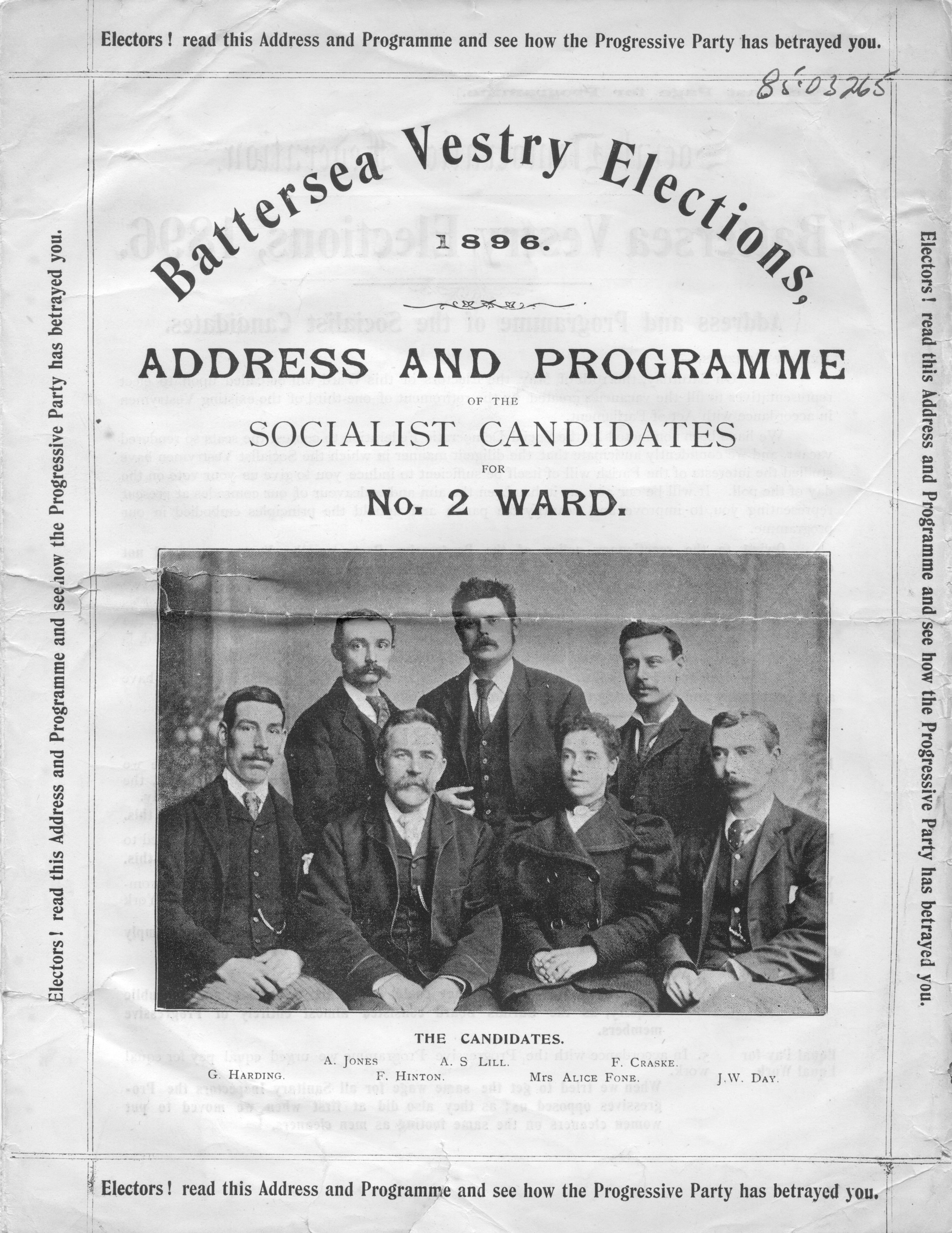 Cover of the Social Democratic Federation election leaflet Battersea Vestry Elections, 1896. Address and Programme of the Socialist Candidates for No. 2 Ward.